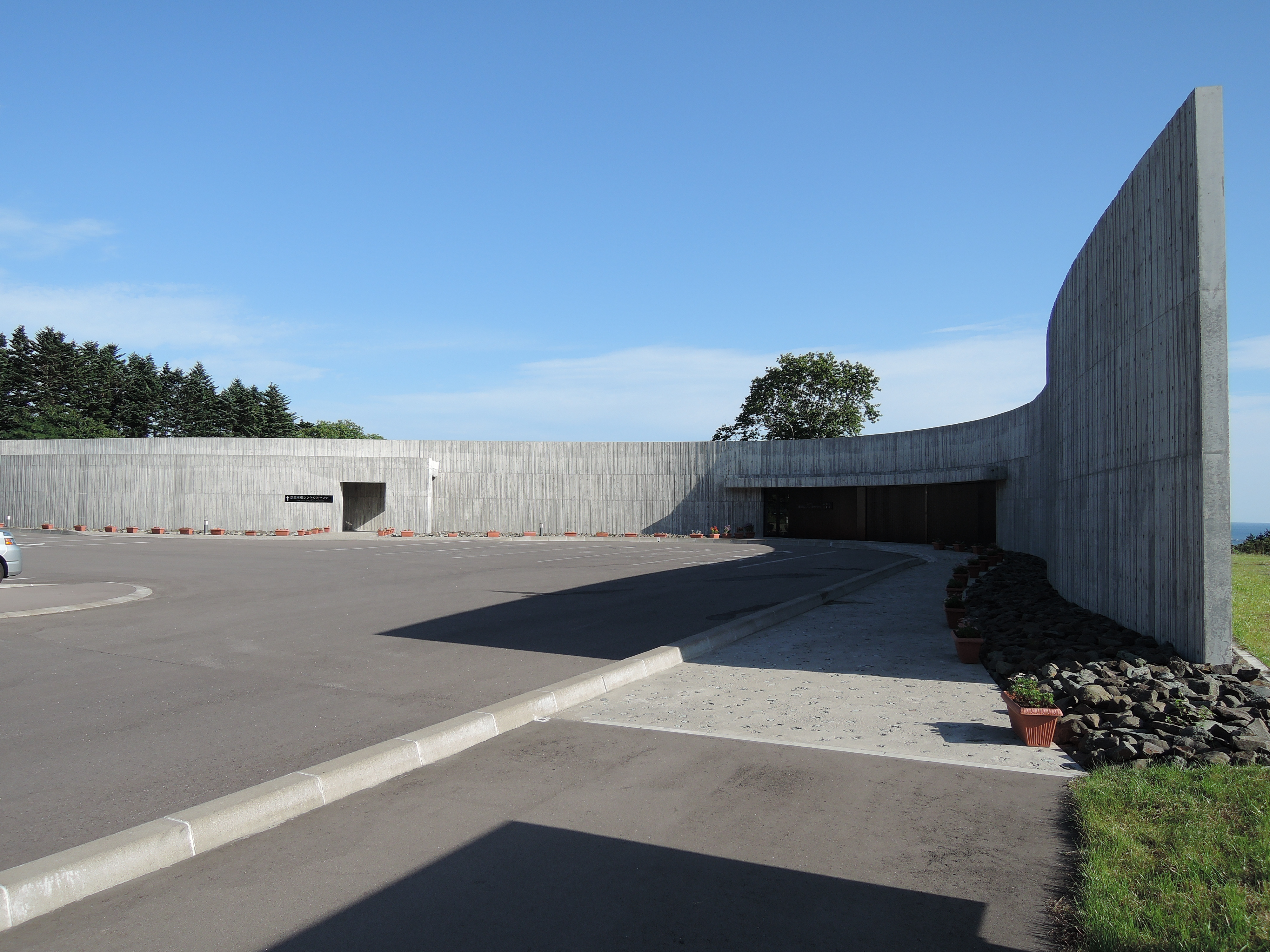 Roadside station Jomon Roman MinamiKayabe,Hokkaido prefecture,Japan